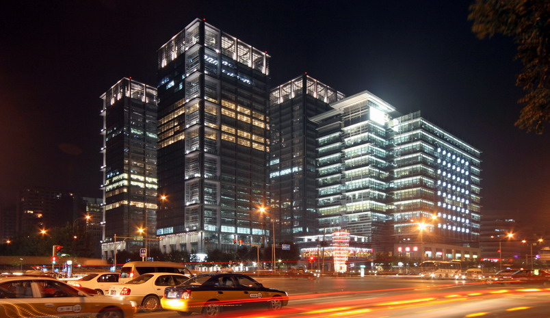 Central of Beijing, itsmo